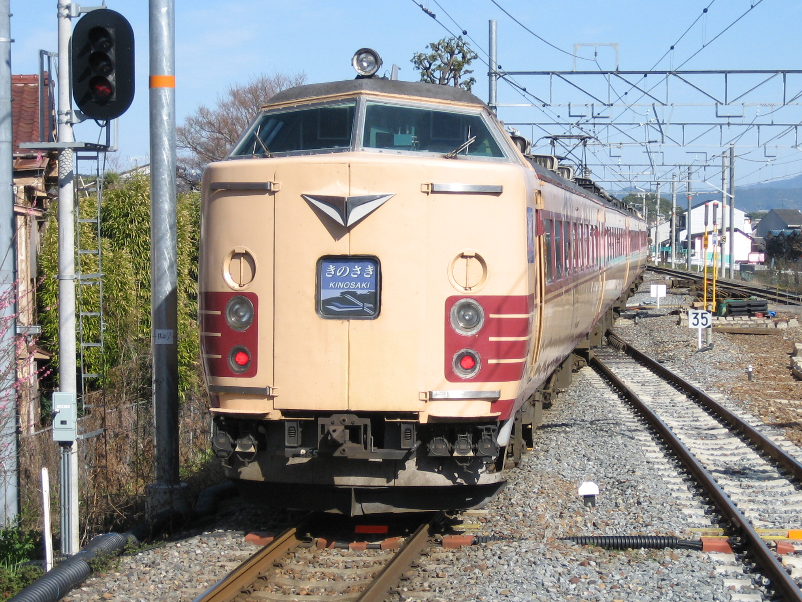 A JR West 183 series EMU on a Kinosaki limited express service